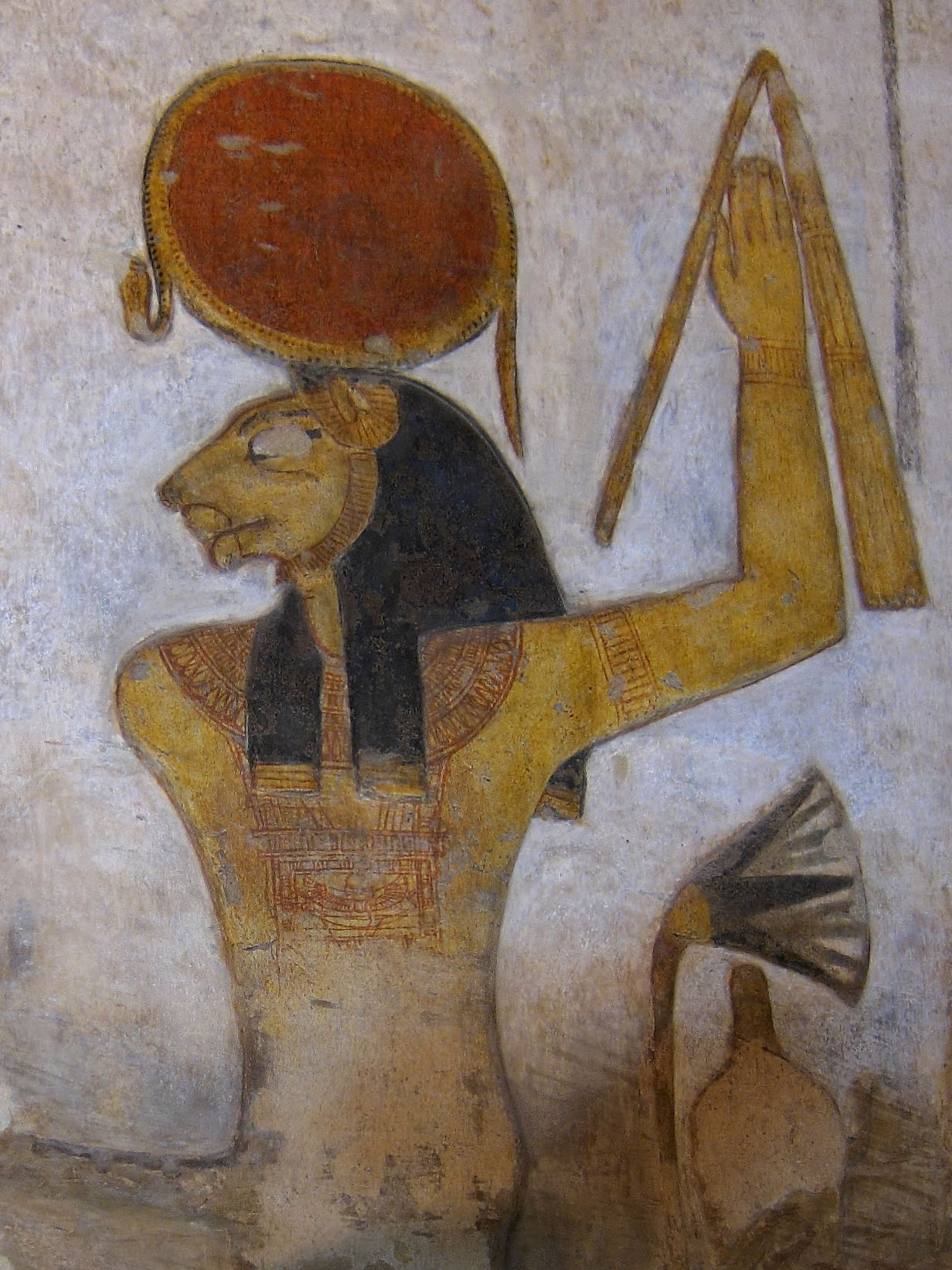 Relief from the Sanctuary of Khonsu Temple in the Precinct of Amun-Re at Karnak Temple - Representing Sekhmet